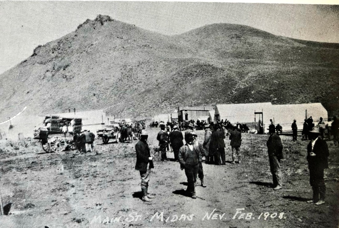 The town of Midas, Nevada. February 1908.